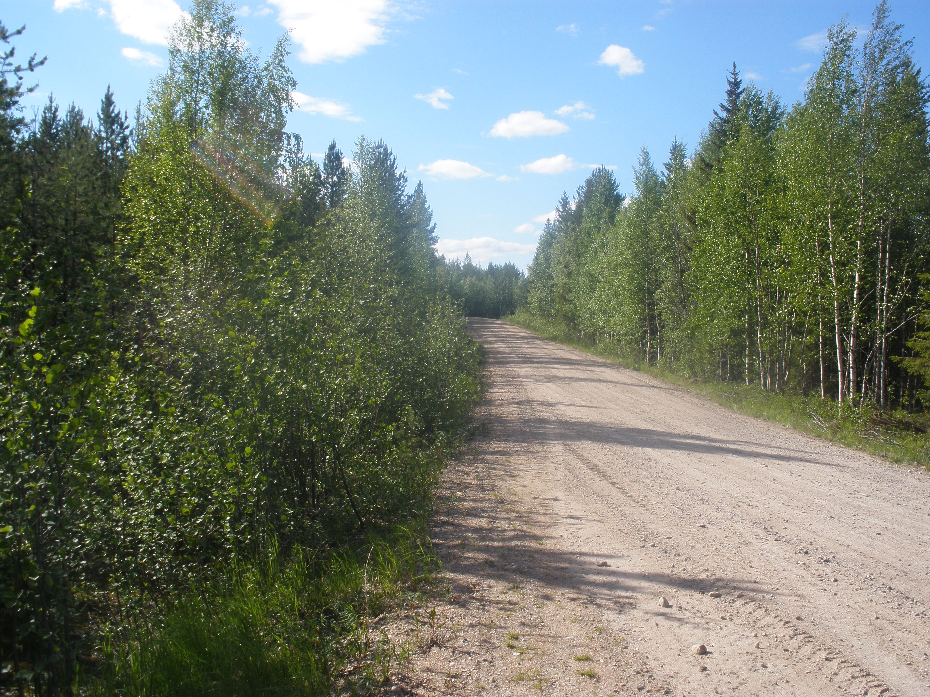 A gravel road in Rovaniemi, Finland.